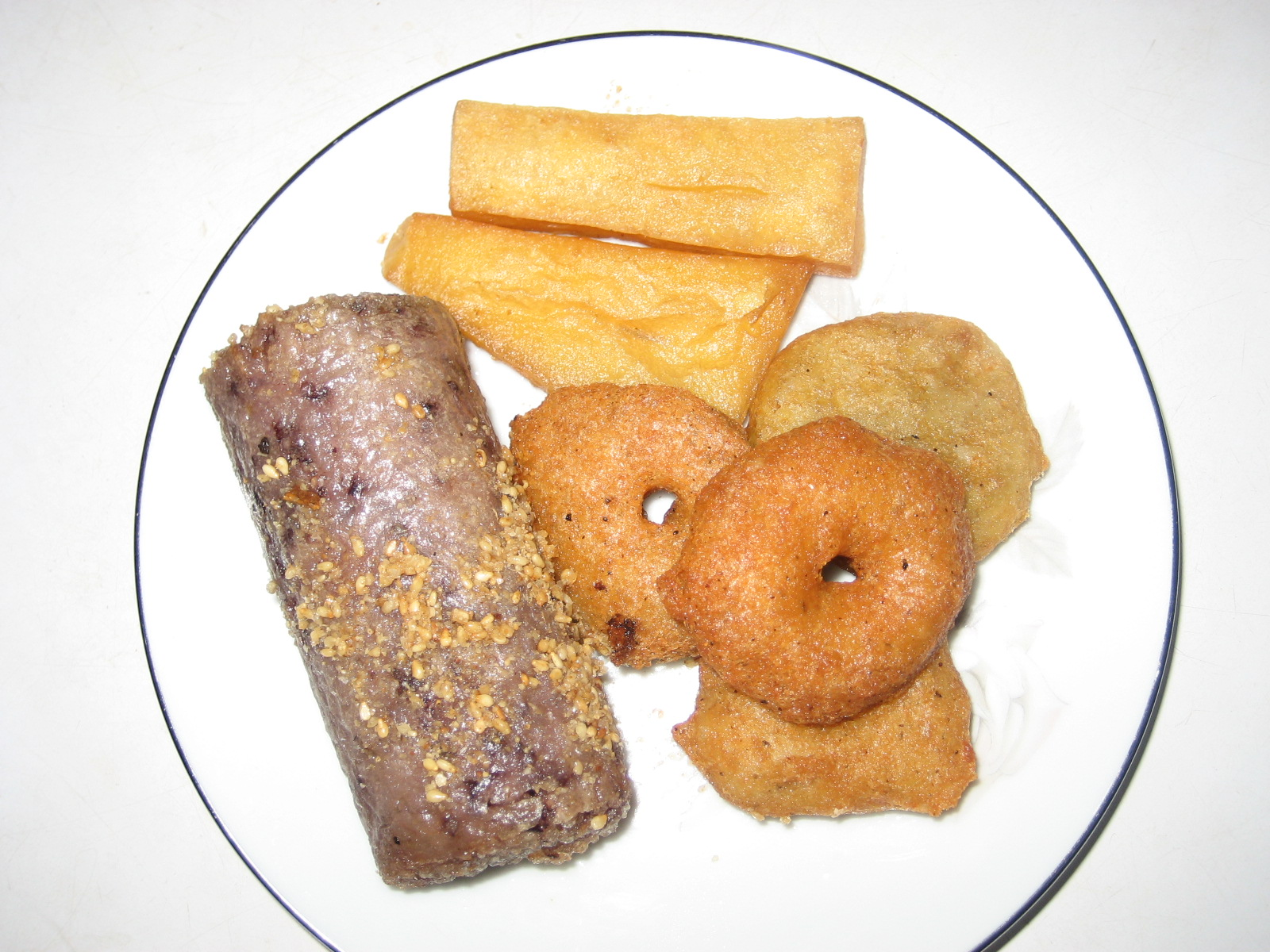 Paung din (glutinous rice cooked in a bamboo segment - the purple variety nga cheik shown here) with to hpu gyaw (Burmese tofu), baya gyaw (urad dal) and aloo gyaw (mashed potato fritters).